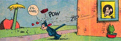 Consulting the Library of Congress copyright renewal list shows that the copyright lapsed and was not renewed. King Features has, however, trademarked Krazy Kat and related images, and so these images may not be used for commercial purposes. Detail of a Sunday page in which Ignatz, disguised as a painting, hurls a brick at Krazy Kat who interprets it as an expression of love. Artist: George HerrimanPublished November 7, 1937